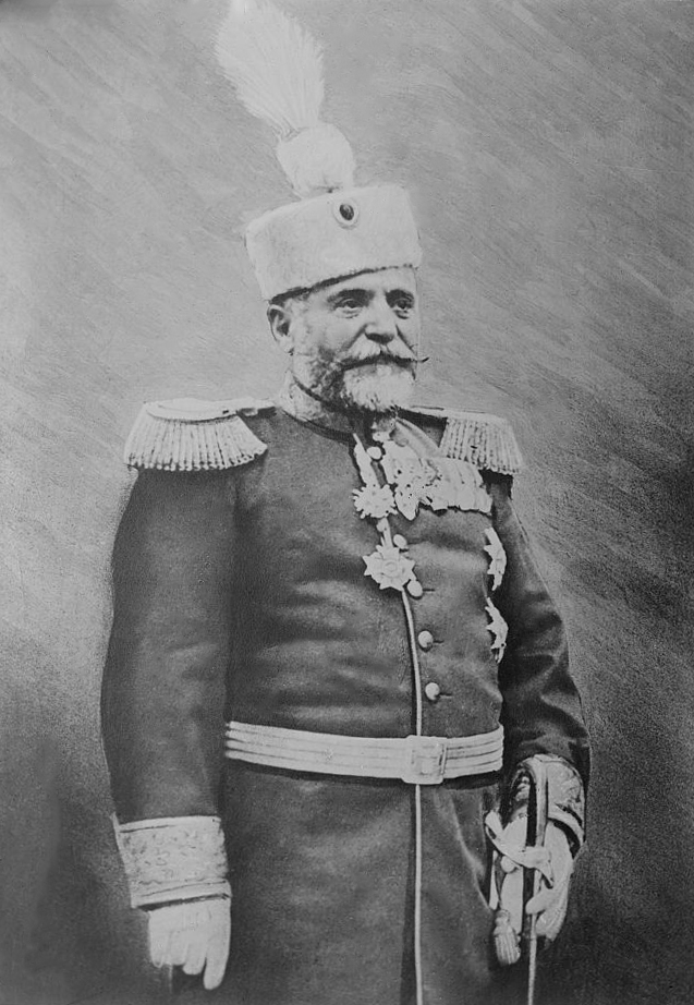 Radomir Putnik in 1916